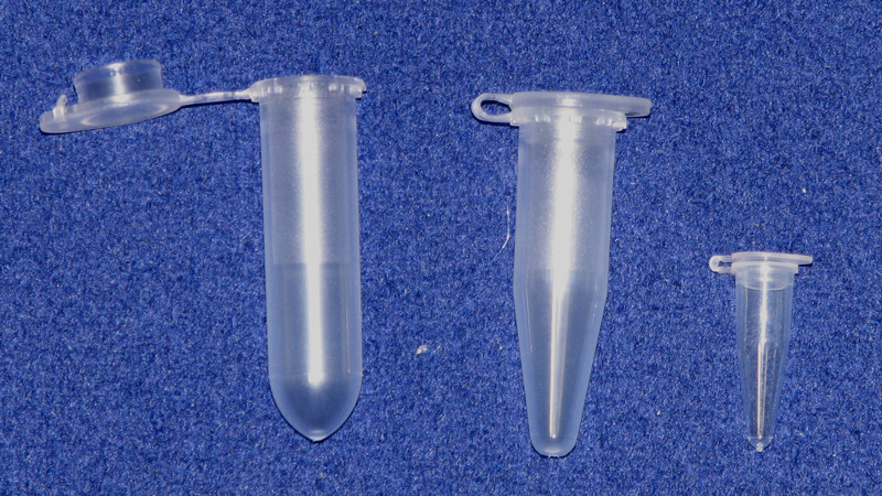 Three different eppendorf tubes. From the left: 2ml, 1,7ml, and 200ul - used for PCR. Trzy eppendorfki. Od lewej 2ml, 1,7ml i 200ul "peceerówka".